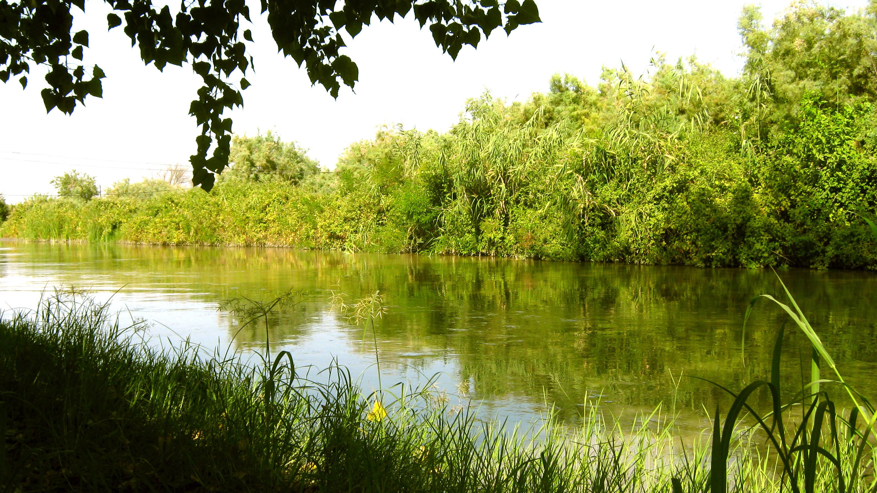 Salyan